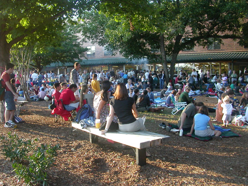 Photo of After Hours event at Weaver Street Market in Carrboro.